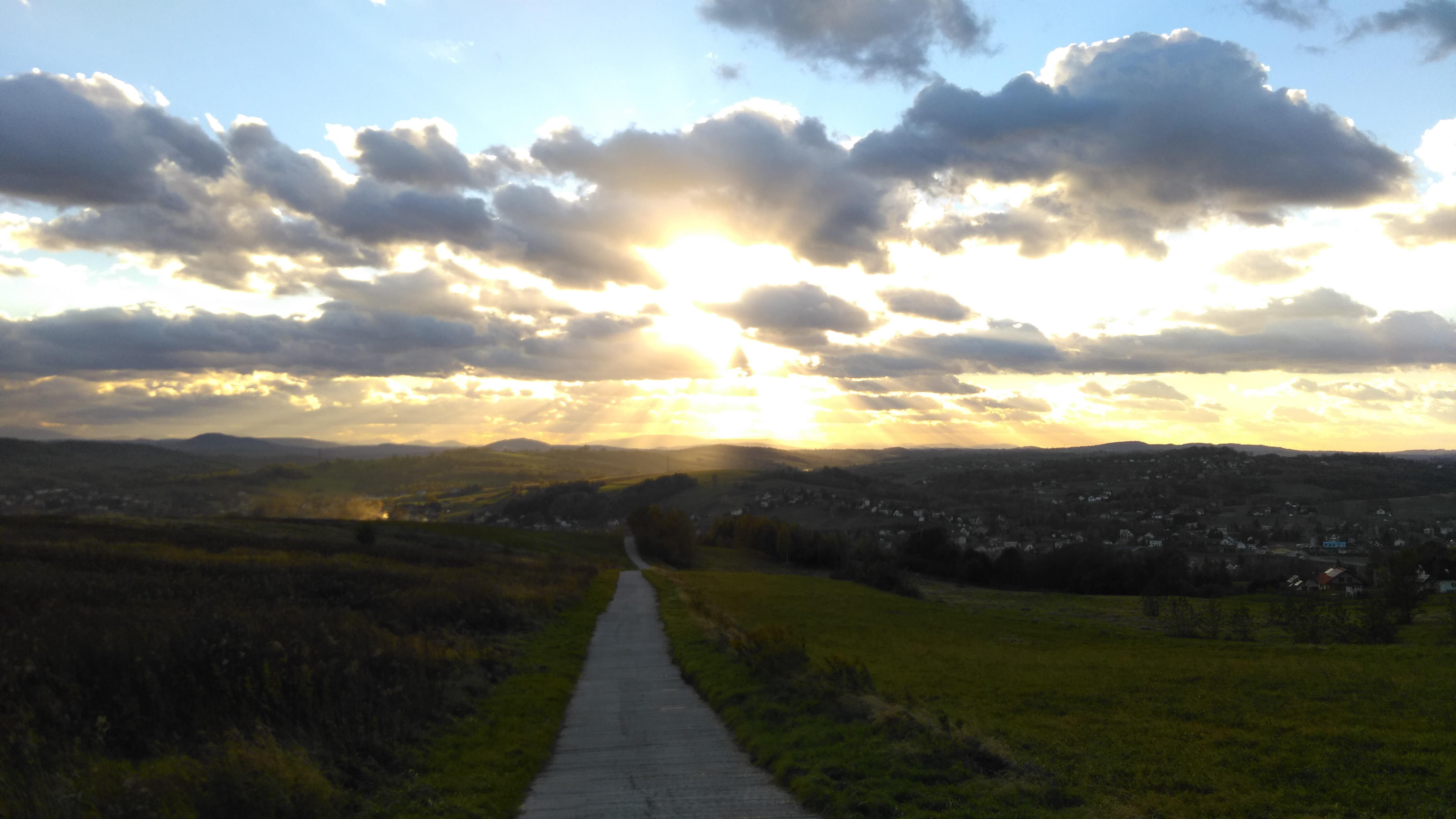 Road in Radziszow